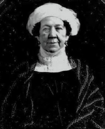 Daguerreotype of Dolley Madison, taken in 1848 by Matthew Brady